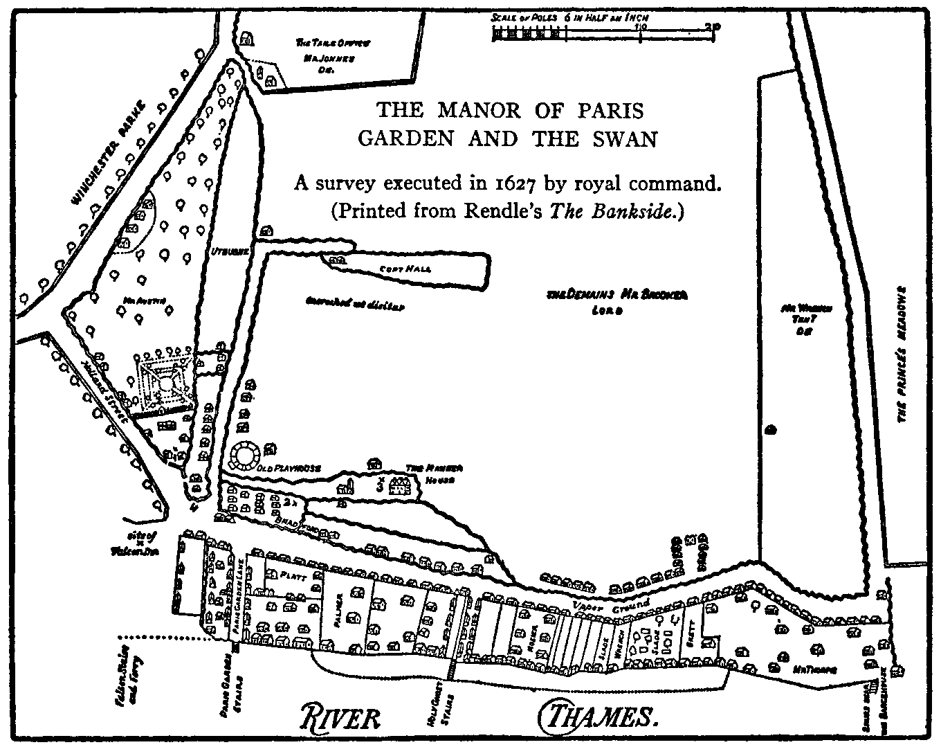 The Manor of Paris Gardens, Bankside, London and The Swan (theatre). From a survey executed in 1627 by royal command. (Printed from Rendle's The Bankside.)